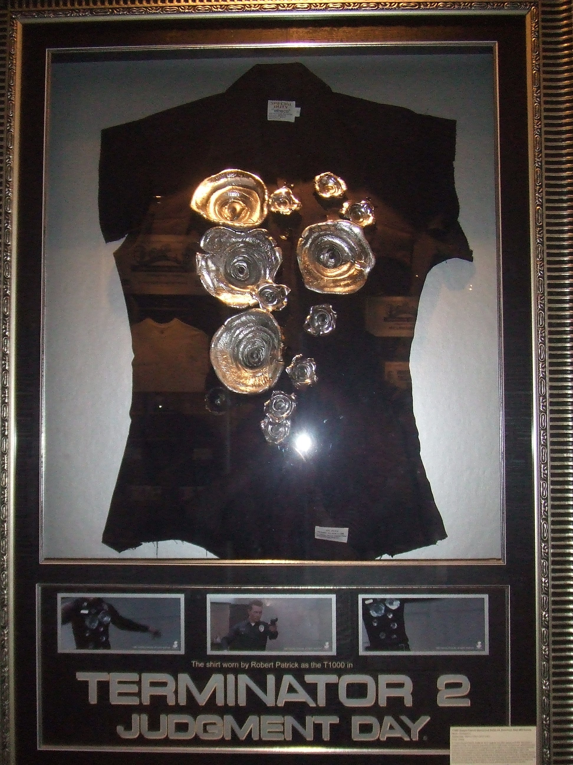 Costume worm by Robert Patrick as T-1000 in the film Terminator 2: Judgment Daydisplayed at the London Film Museum.